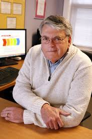 Brent David Ruben